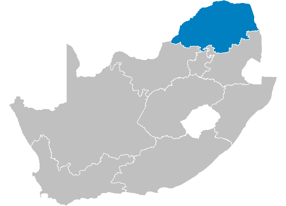 Map of South Africa showing the Limpopo province after the 12th amendment of the constitution in December 2005.